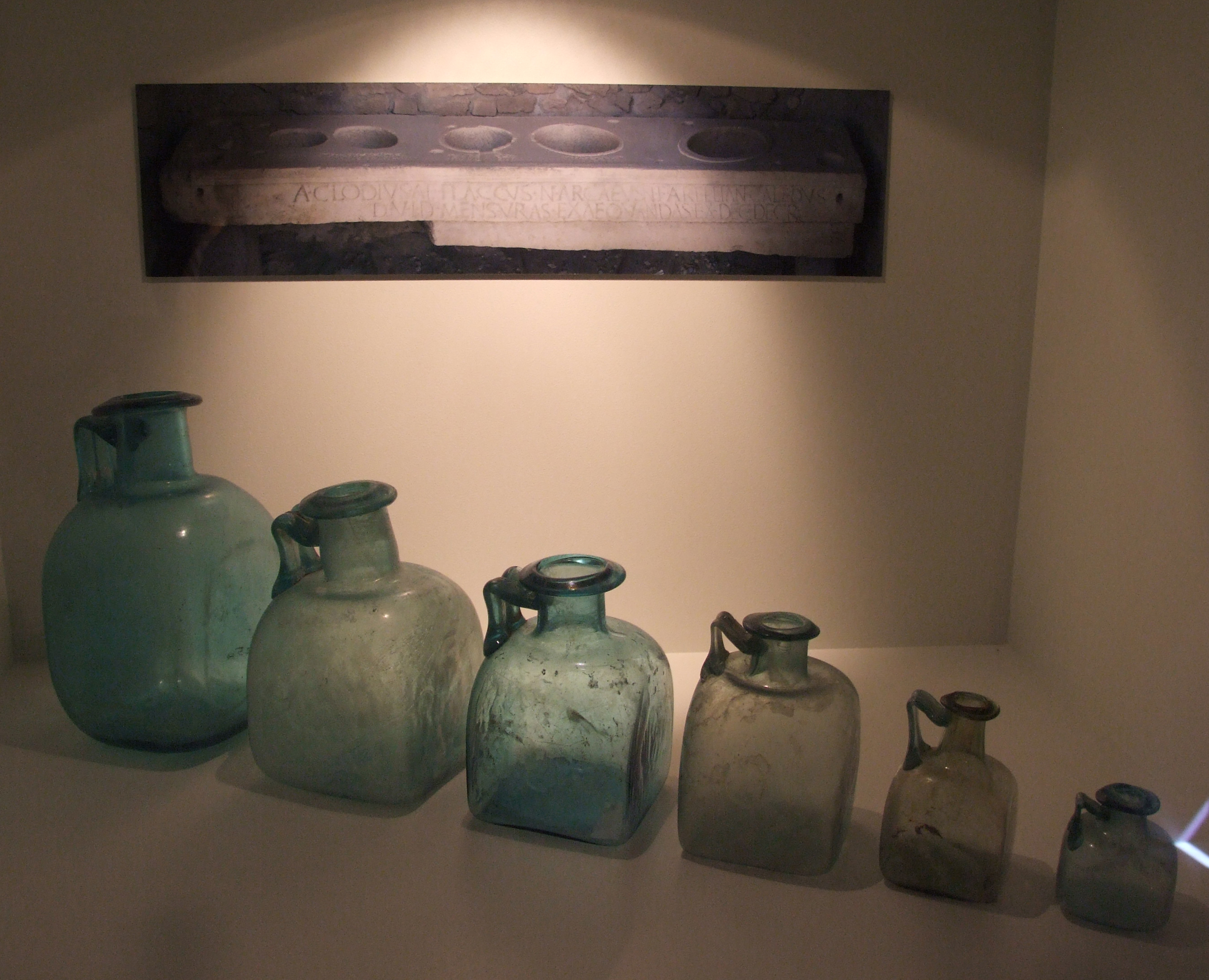 Pompeii: 6 Bottles of glass for the measure of capacity of the mensa ponderia (board of weights and measures) at forum; Pompeii-Exhibition at Europäischer Kulturpark Bliesbruck-Reinheim